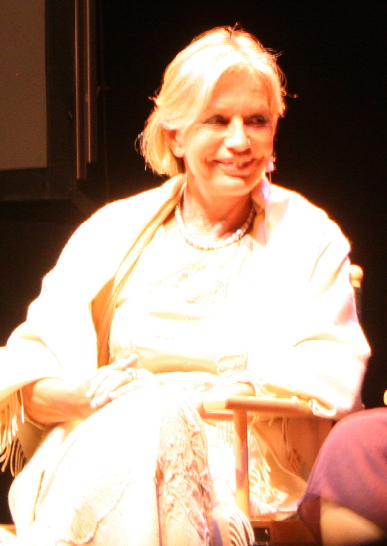 French actress Catherine Spaak